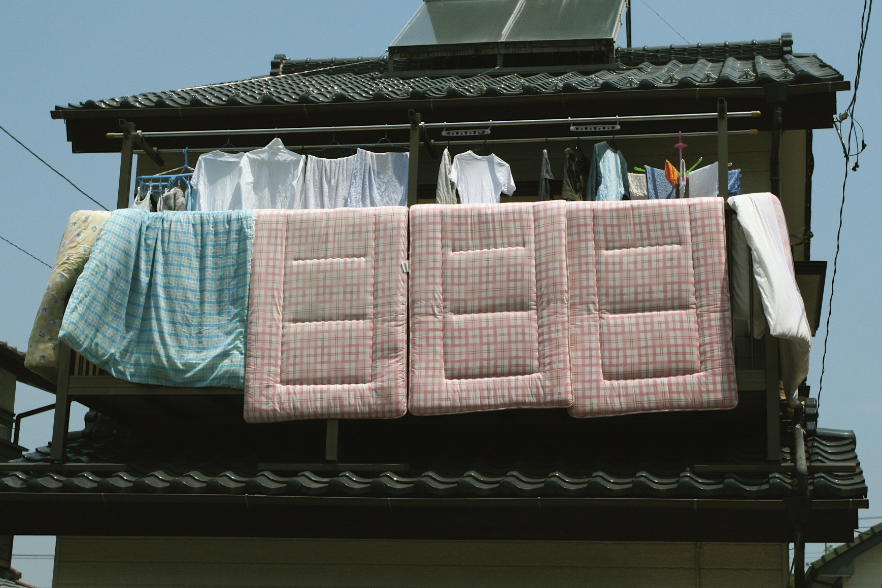 Most Japanese homes still have one traditional Japanese room where occupants sleep on futons, possibly even on tatami mats. In Sakura, we saw many people airing out these shikibutons during the day.